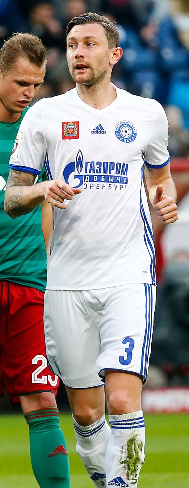 Mikhail Sivakow with FC Orenburg in a game against FC Lokomotiv Moscow.